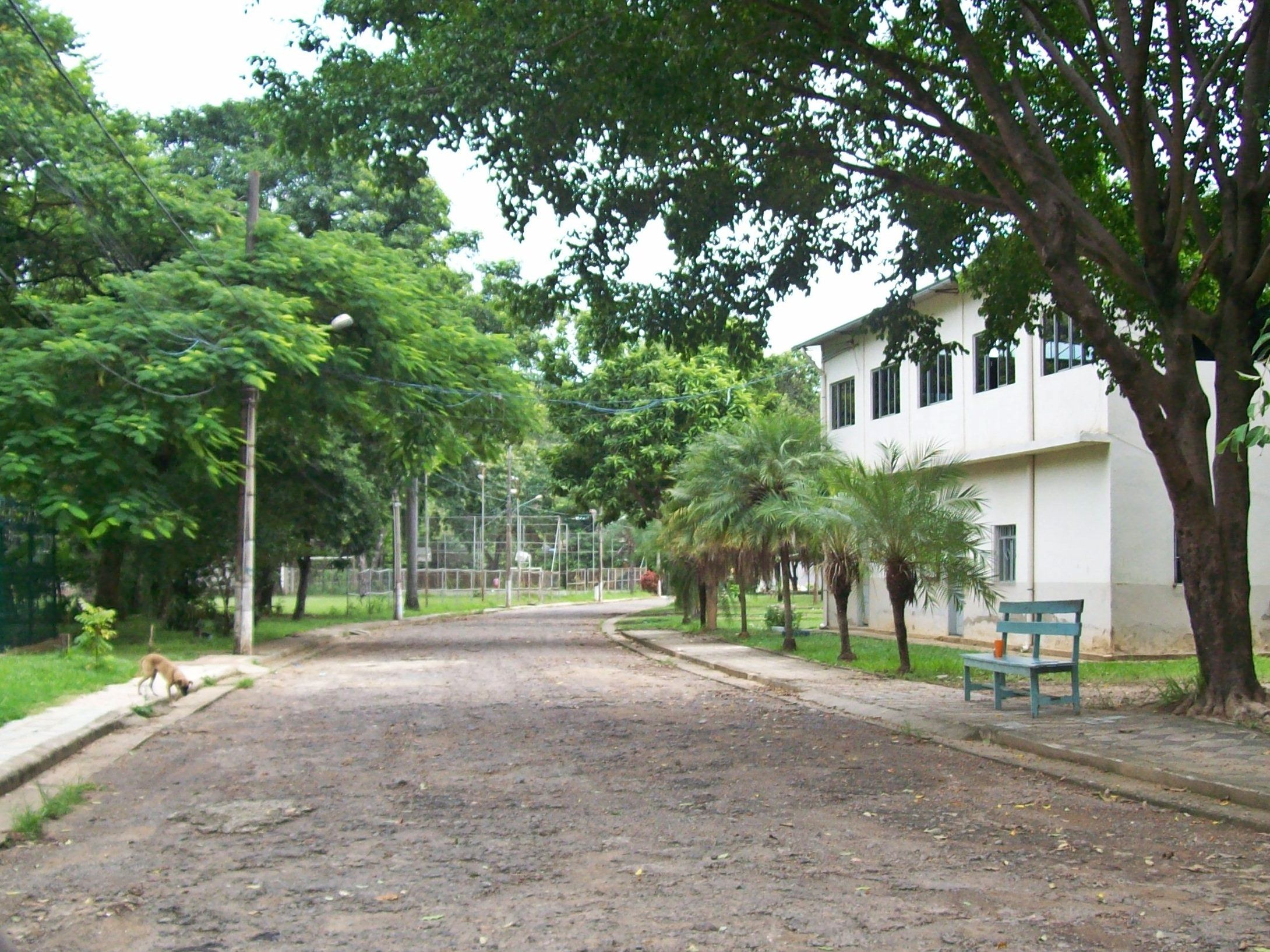 Interior of the Cidade dos Meninos (old Cidade do Menor), a male orphanage in Coronel Fabriciano, Minas Gerais, Brazil.